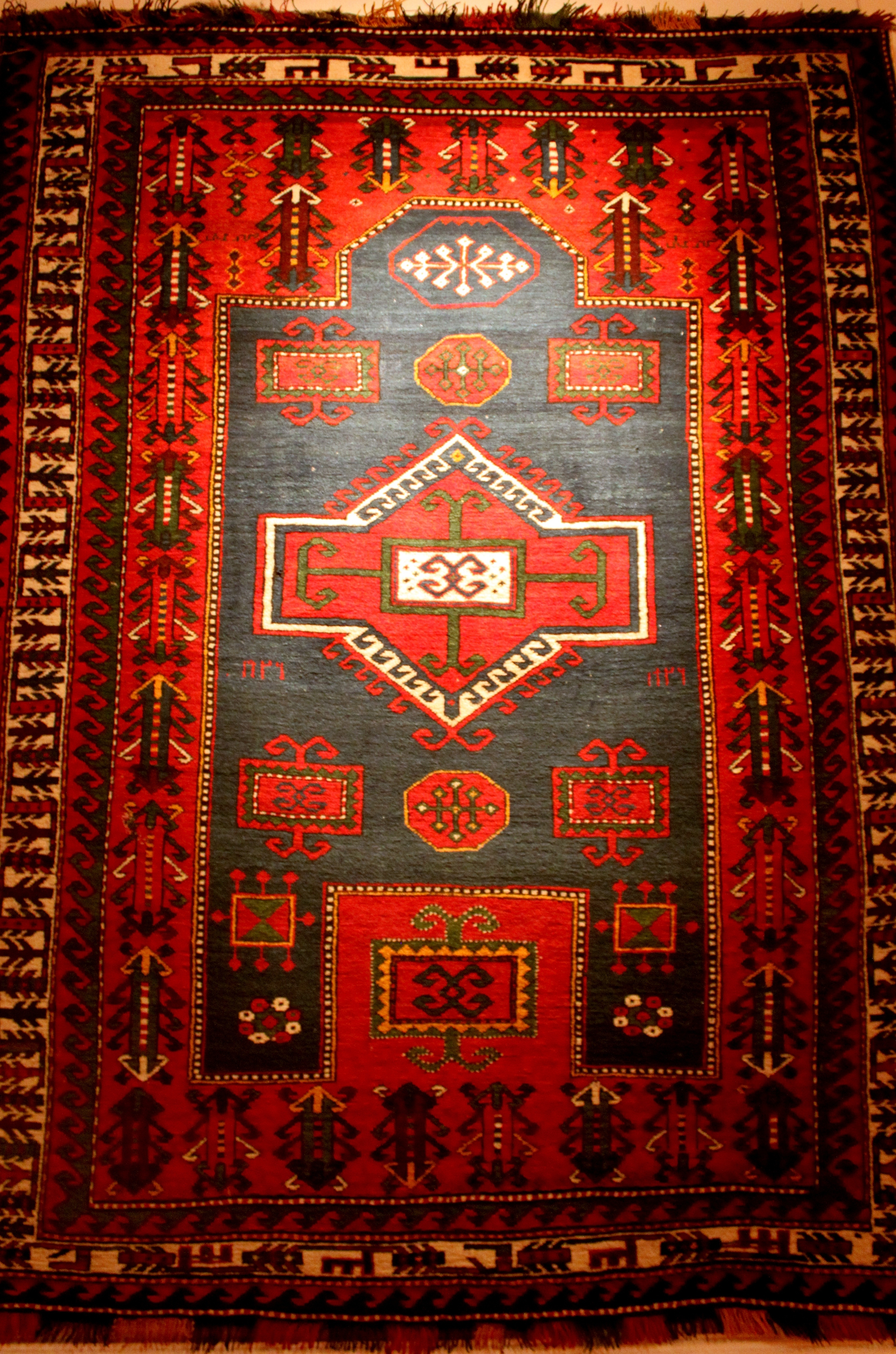 Dəmirçilər carpet, Qazakh group of Azerbaijan carpets.